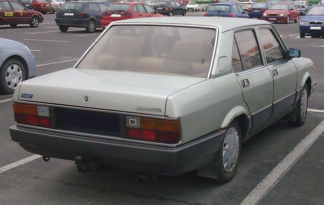 Fiat Argenta seen on a parking lot in front of a supermarket in Piaseczno